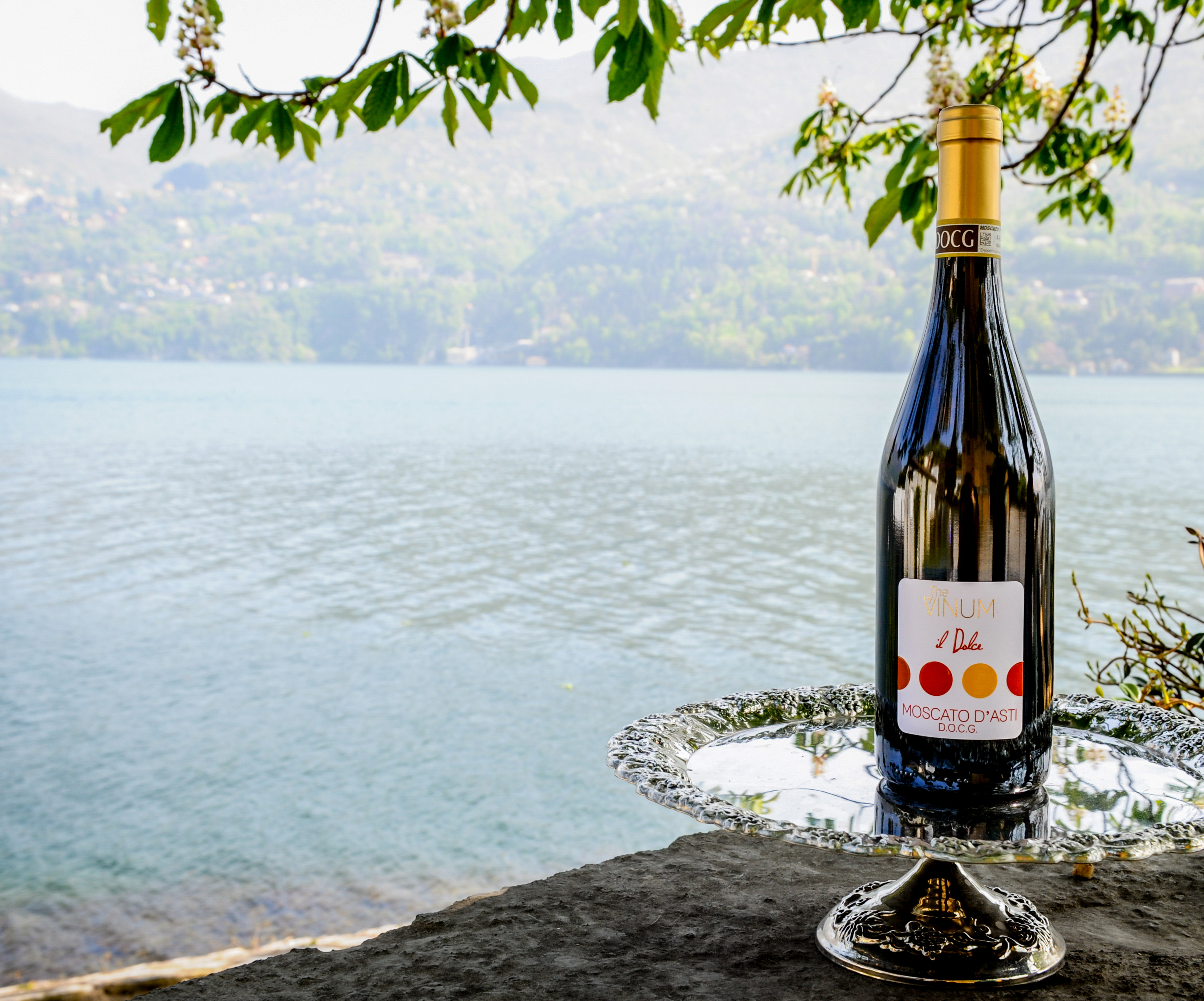 A bottle of Moscato during my trip to Italy